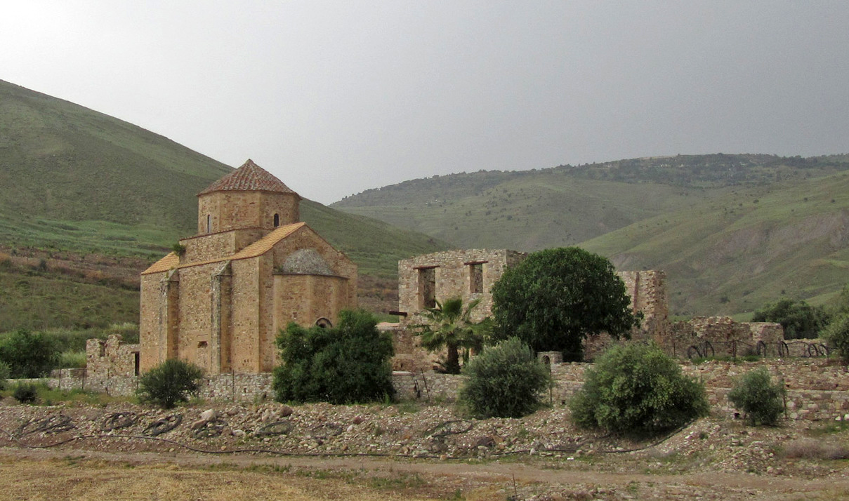 Panagia tou Sinti Monastery, an orthodox monastery near the village of Pentalia in the Paphos district of Cyprus